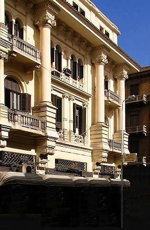 Ex-Rue_Porte_Rosette,_Rue_Fouad_3 in Alexandria